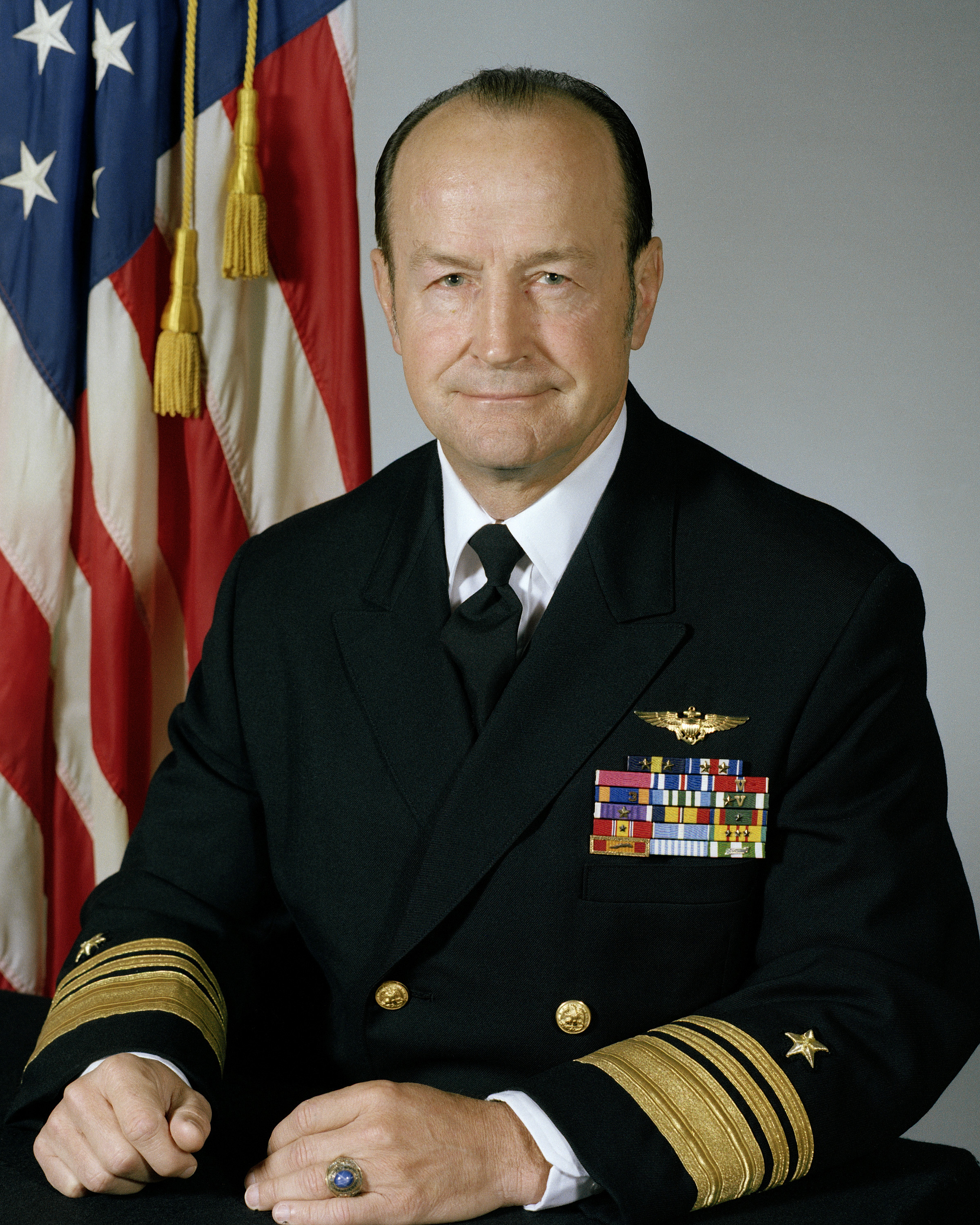 Official portrait of VADM William P. Lawrence, USN